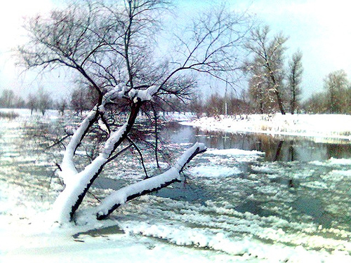 Severskii Donetz